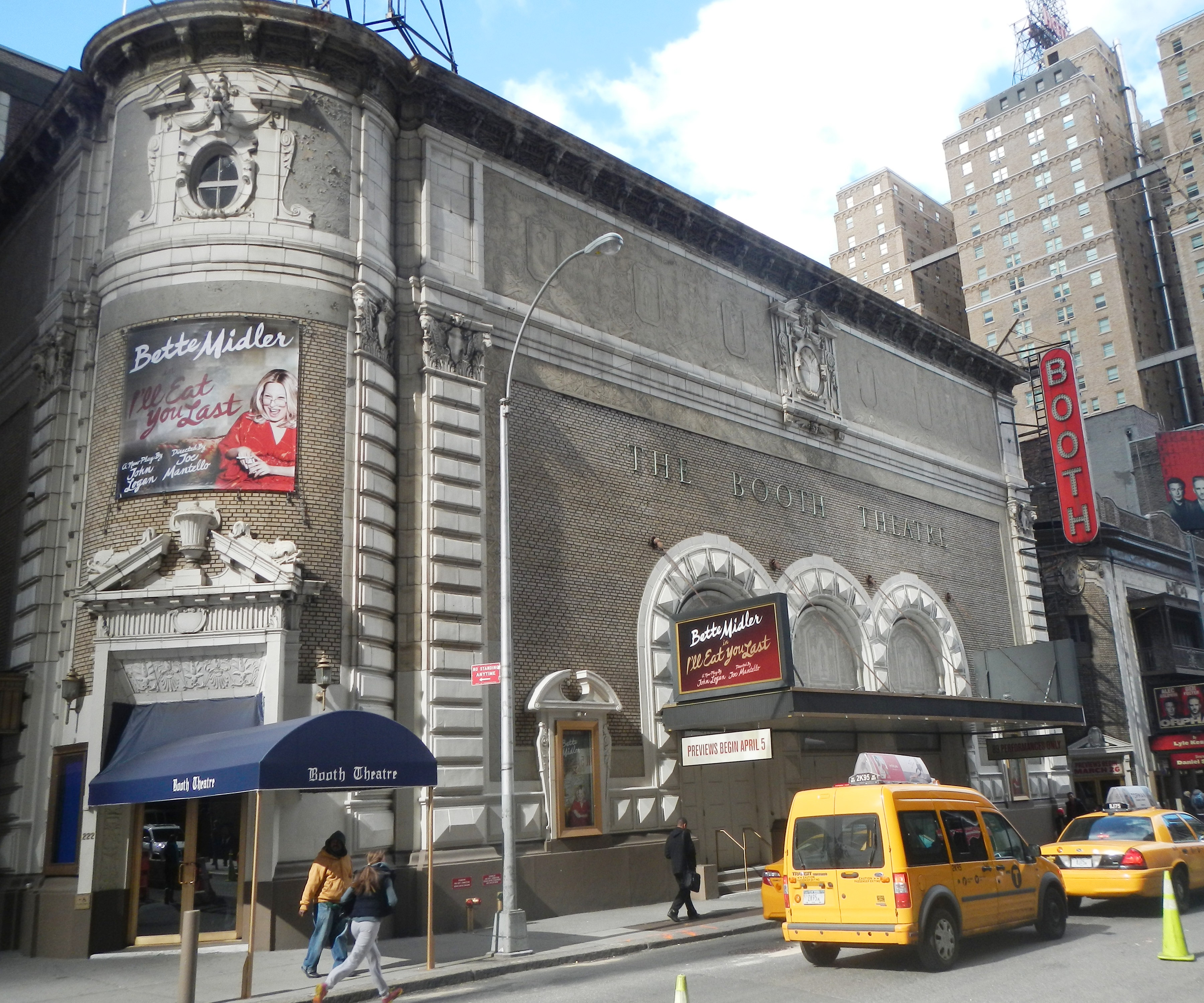 Looking west across 45th Street at Booth on a sunny morning.